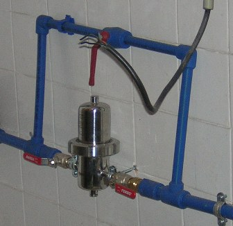 Compressed air sterile filter